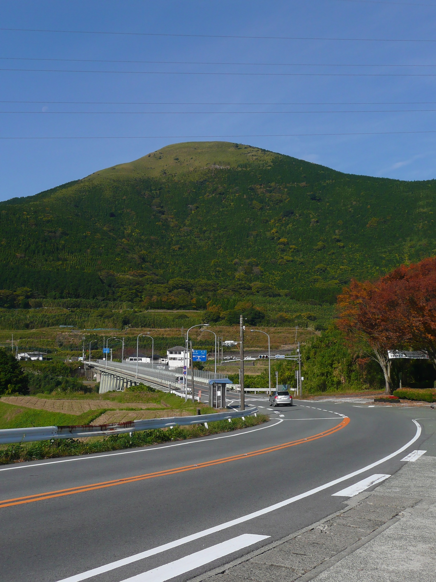 National Route 325 in 2009 (Minamiaso Village, Kumamoto, Japan)